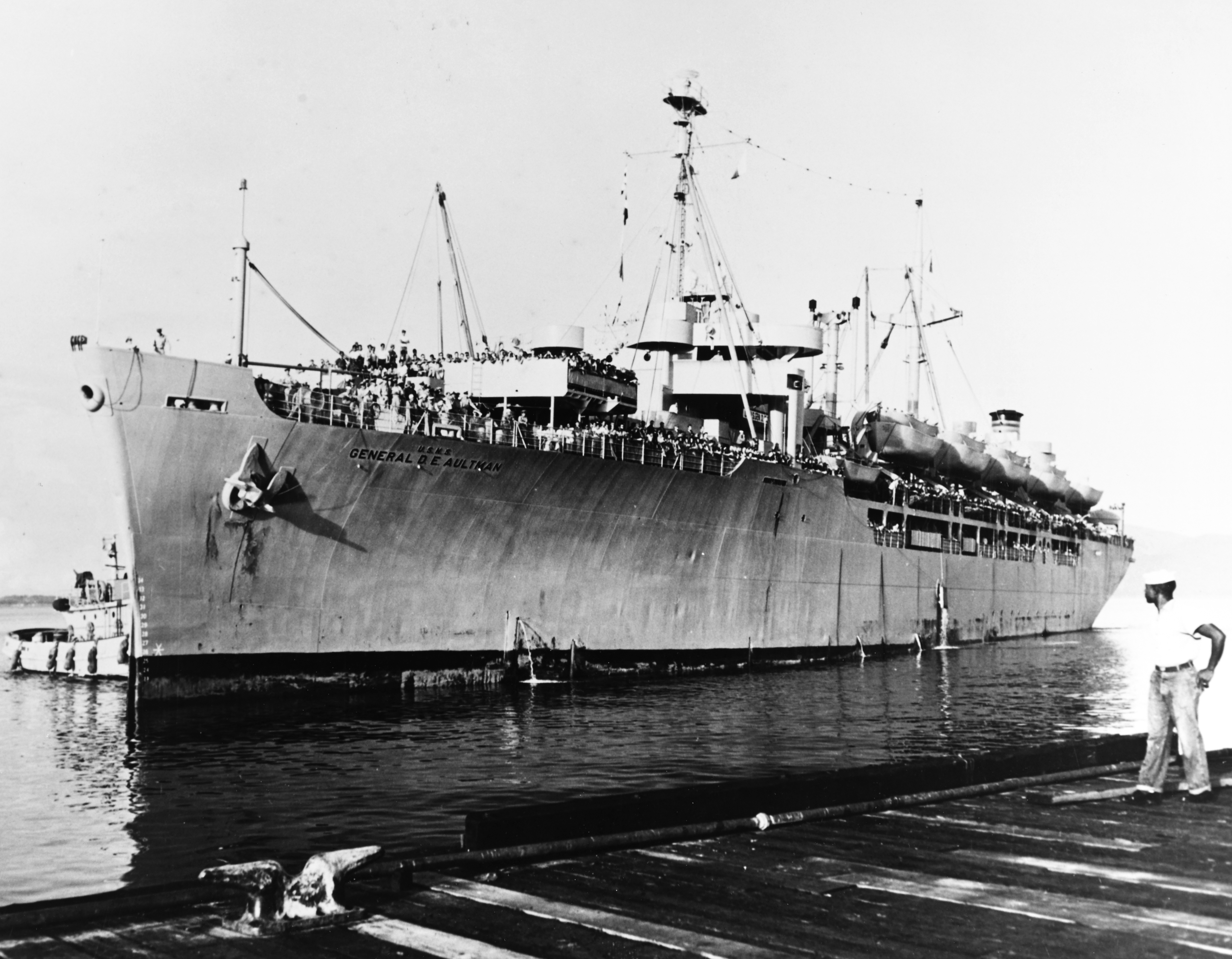 The U.S. Military Sea Transportation Service transport USNS General D. E. Aultman (T-AP-156) arrives at Naval Station Subic Bay, Philippines, to discharge men of Mobile Construction Battalion Three, 2 October 1951.